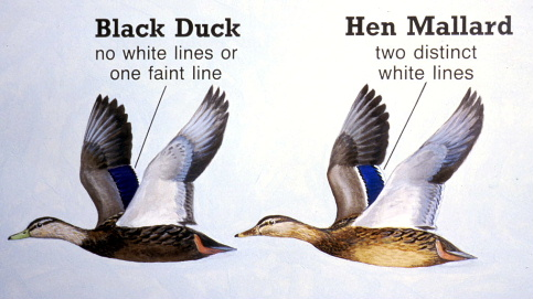 Black Duck - Mallard Comparison